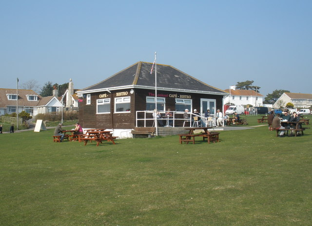 The Lookout Cafe, Overcombe. Here is a view of the cafe in 1973. 1247174